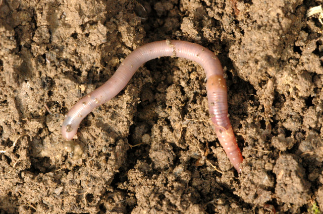 Picture taken in Commanster, Belgian High Ardennes . Species: Lumbricus terrestris